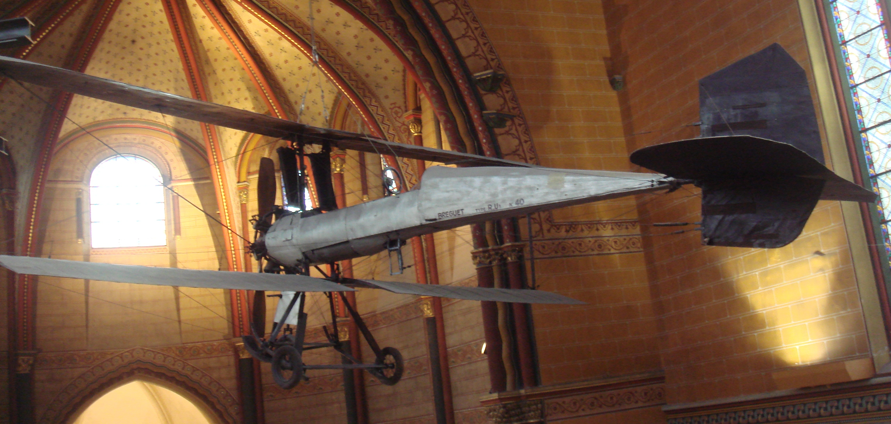 1911 Breguet bi-plane. BREGUET TYPE R.U1 No40